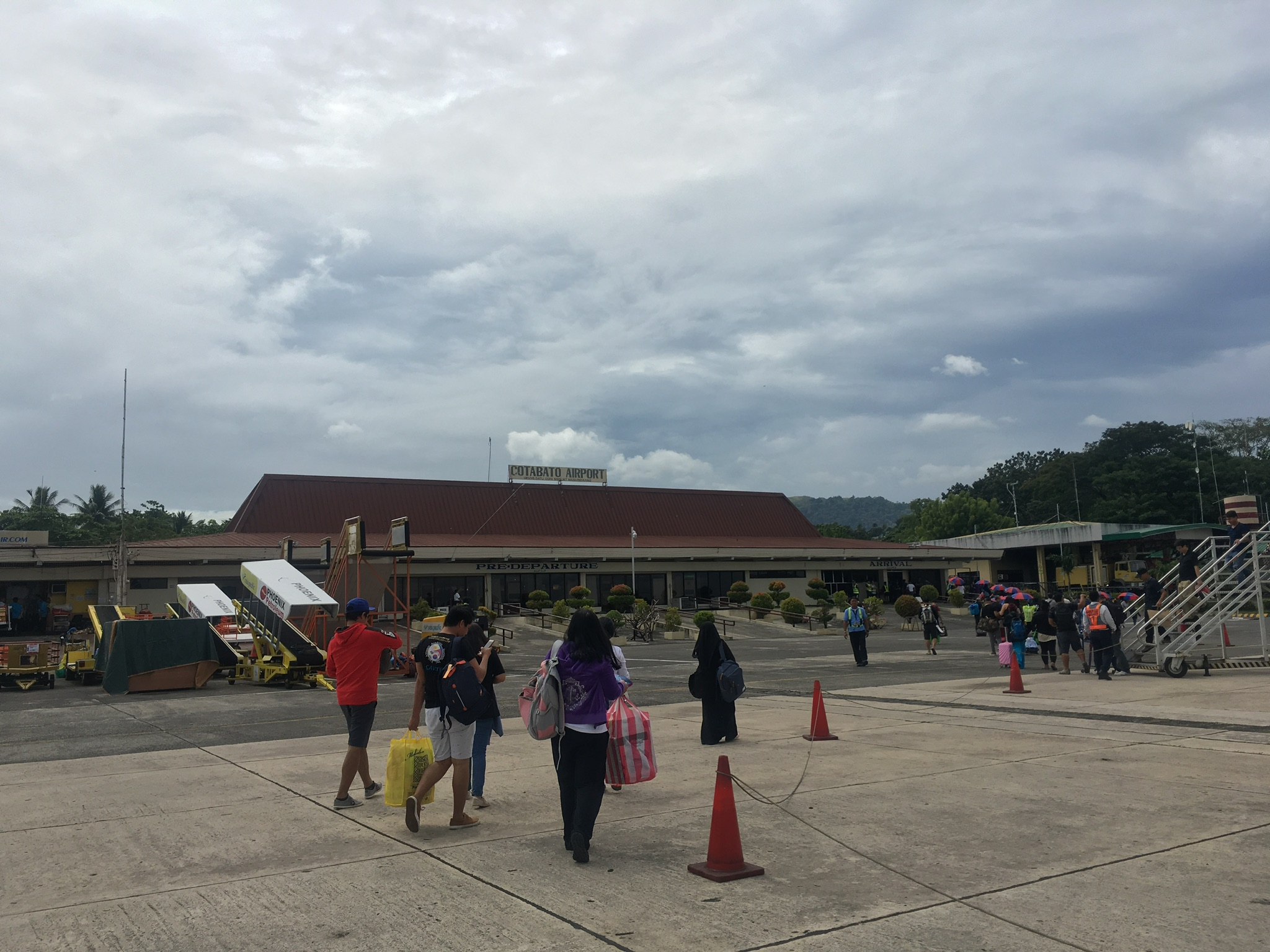 Arrival Area Cotabato City Airport